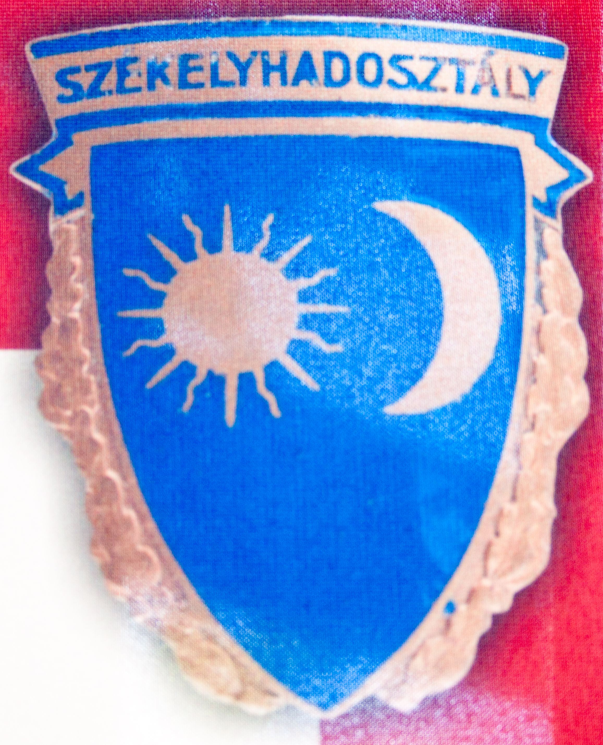 Military badge of the Székely Division